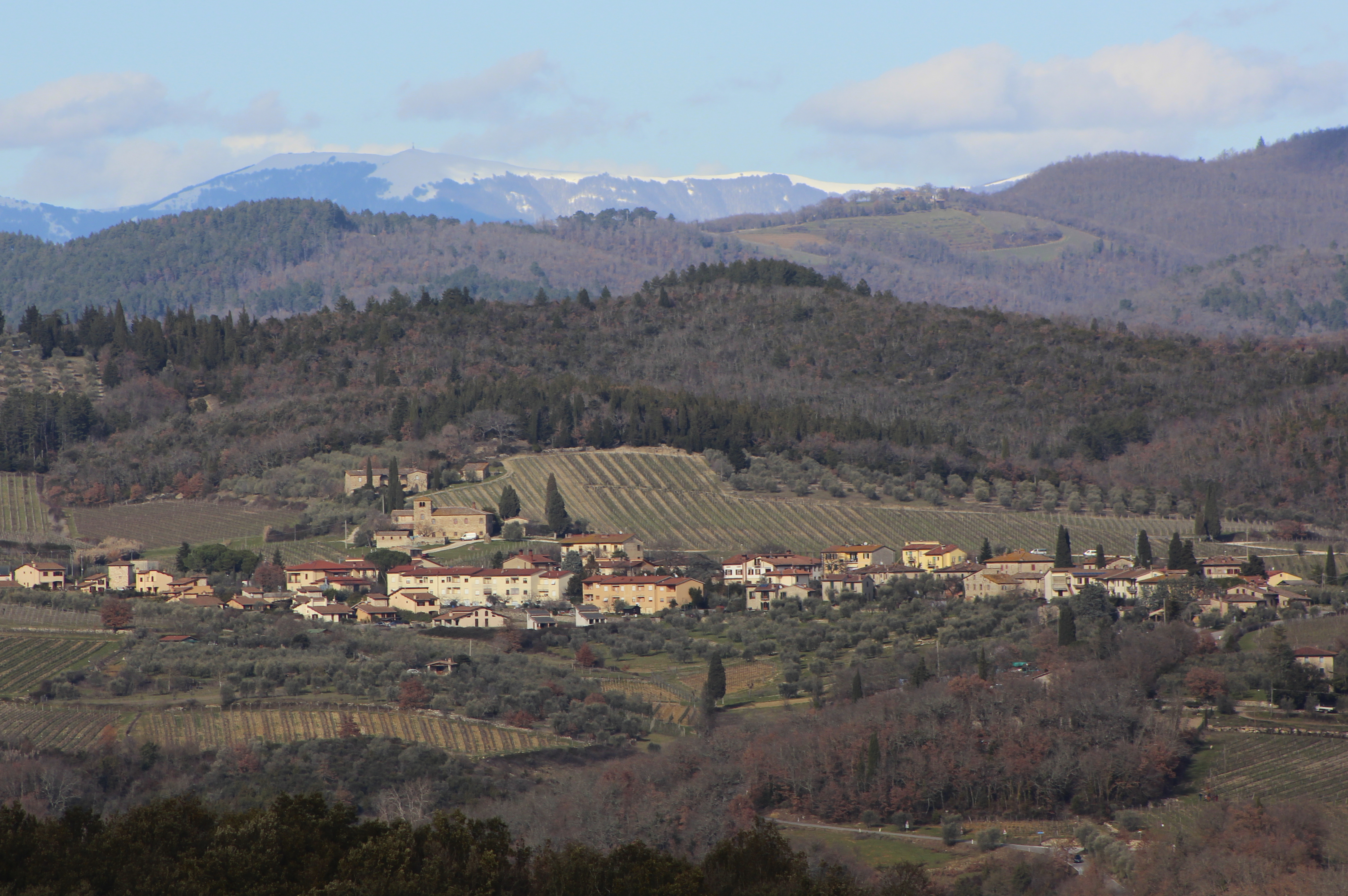 Monti, (Monti in Chianti, San Marcellino in Avane) hamlet of Gaiole in Chianti, Province of Siena, Tuscany, Italy